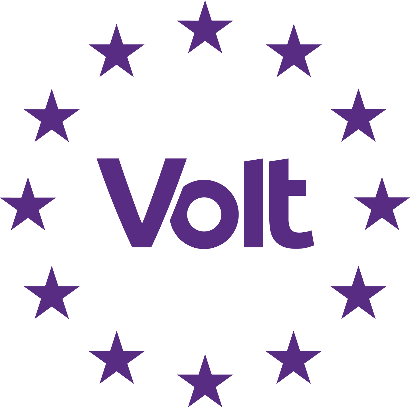 Official logo of Volt Europa